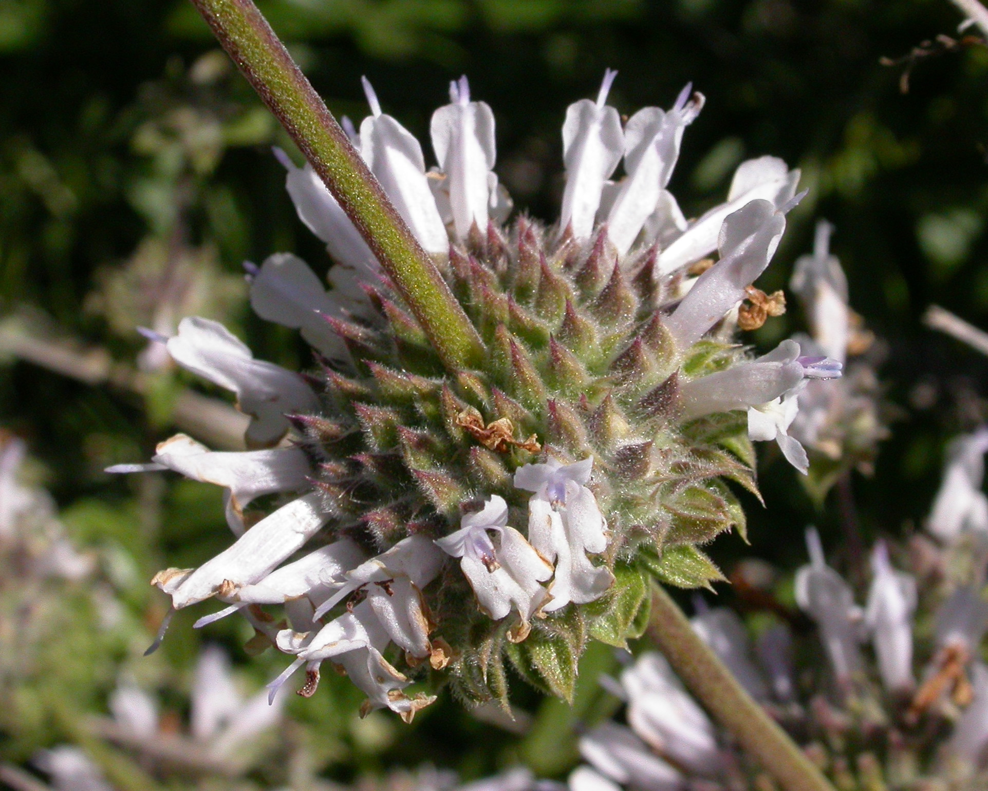 Salvia mellifera — Black sage. Plant of California chaparral and woodlands habitats. In the Voorhis Ecological Reserve at California State Polytechnic University, Pomona, California.